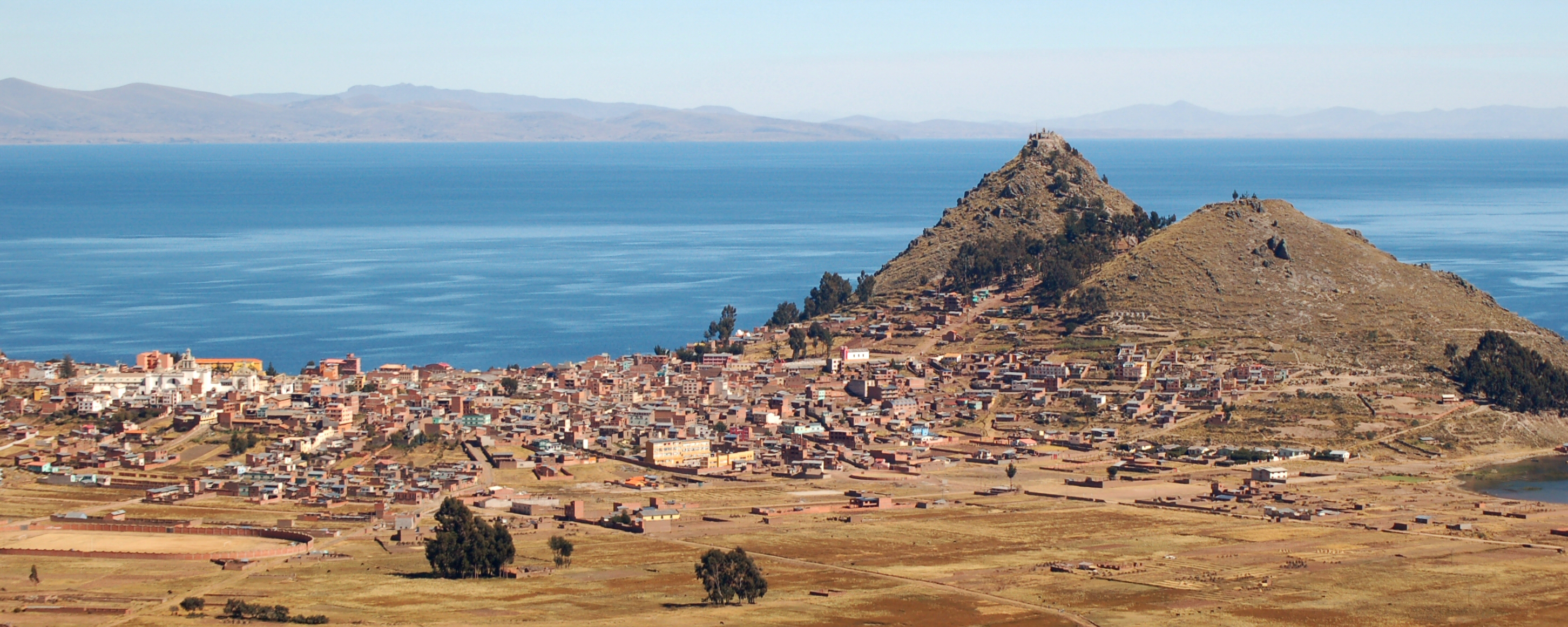 Copacobana is a sleepy little town resting close to Lake Titicaca on the Bolivian side. It's quaint in its own way, with a beautiful little church, and some fairly demanding walks only a hill away.